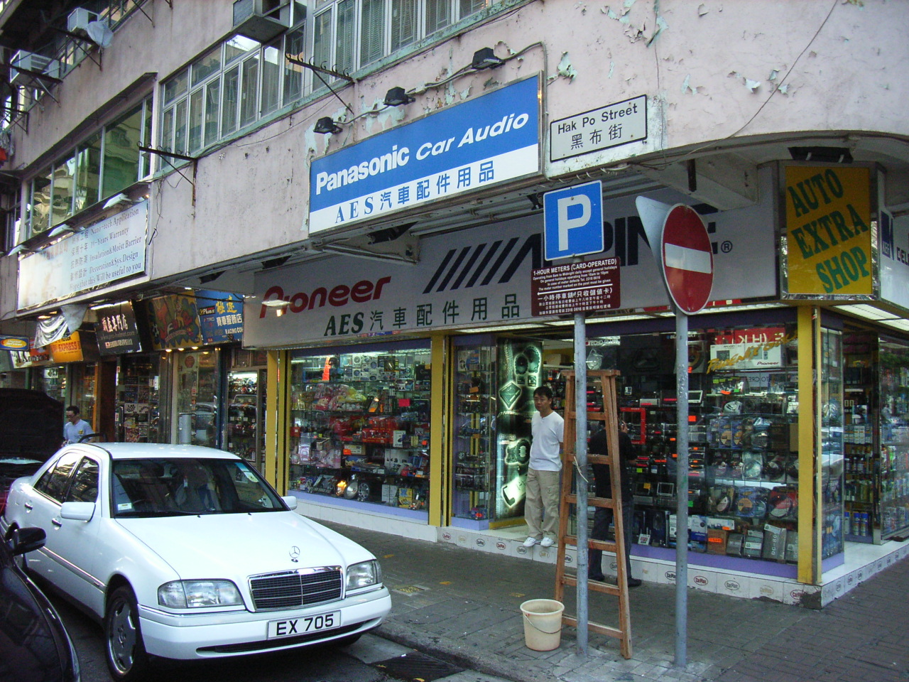 Nelson Street, Kowloon Photo by TonySKTO